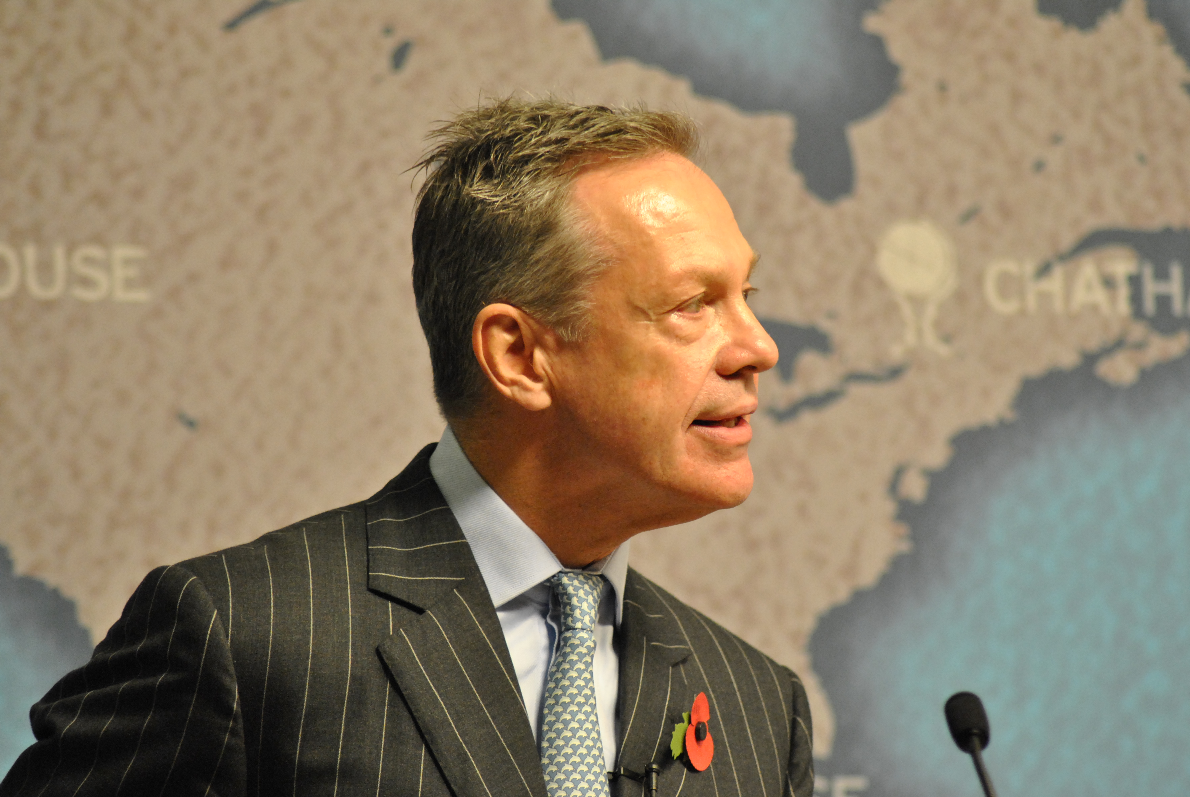 Cry Havoc: Simon Mann's Account of his Failed Equatorial Guinea Coup Attempt, November 1 2011